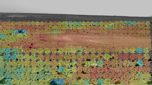 The martian terrain through the eyes of the Mars Exploration Rover Spirit's mini-thermal emission spectrometer, an instrument that detects the infrared light, or heat, emitted by objects. The different colored circles show a spectrum of soil and rock temperatures, with red representing warmer regions and blue, cooler. A warm and dusty depression similar to the one dubbed Sleepy Hollow stands out to the upper right. Scientists and engineers will use this data to pinpoint features of interest, and to plot a safe course for the rover free of loose dust. The mini-thermal emission spectrometer data are superimposed on an image taken by the rover's panoramic camera.